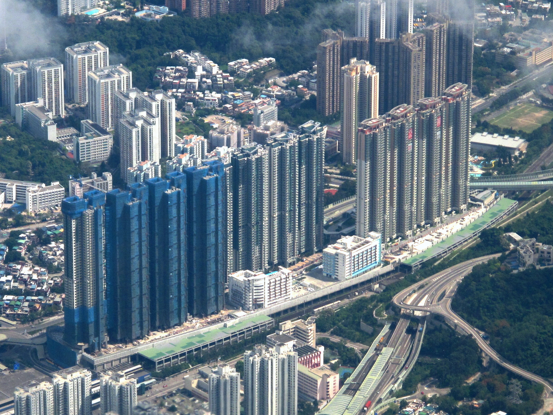 Festival City Overview 名城